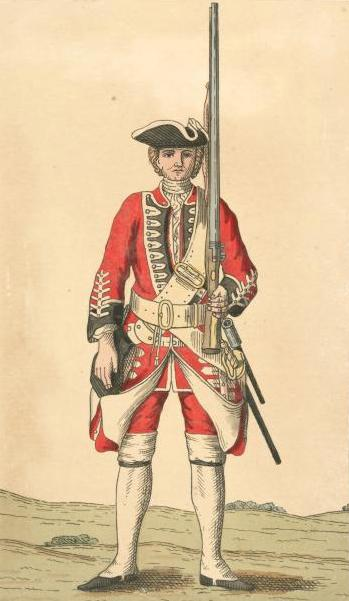 Soldier of the 50th regiment (1742)